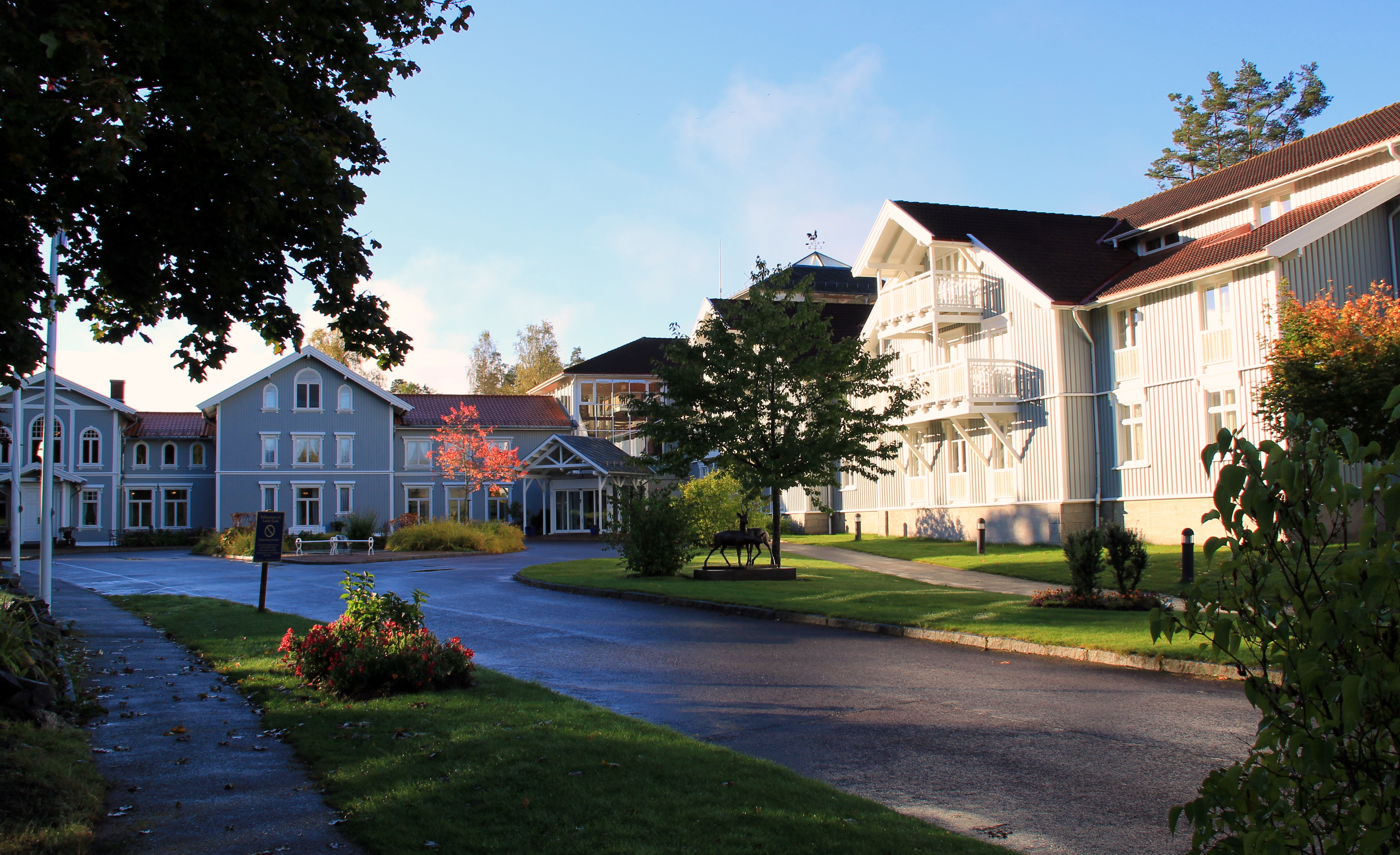 Losby Gods at Losby Golf and Country Club